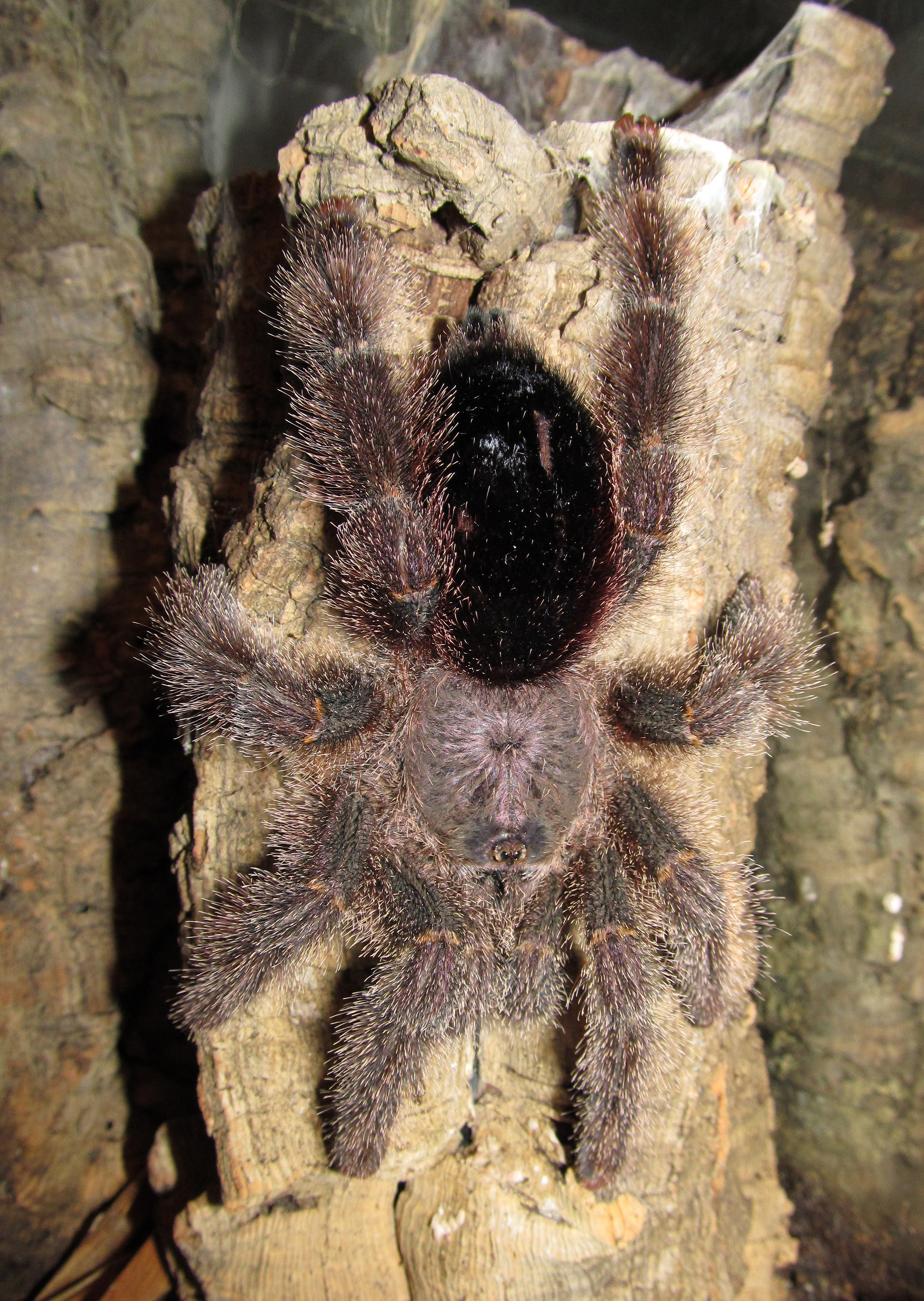 Avicularia cf. huriana. Female.